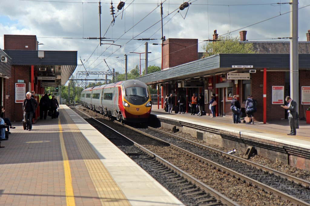 Virgin Class 390, 390112 "Virgin Star", Wigan North Western railway station